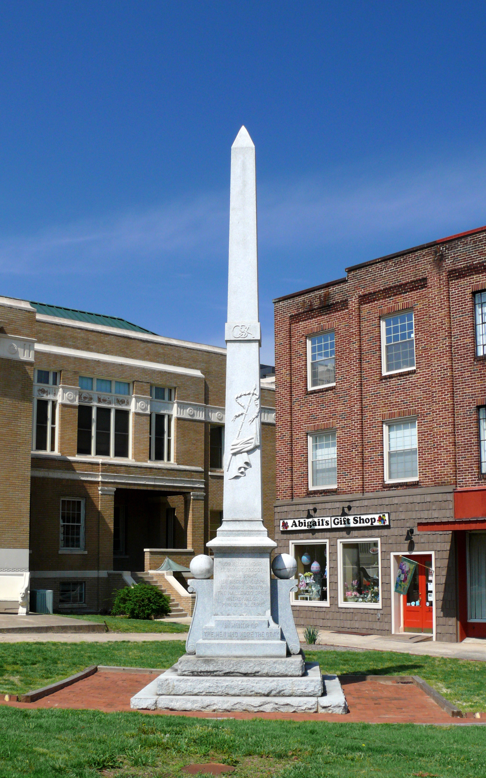 This memorial to the veterans of the Confederate Army (ACW) sits in the northern corner of town square in downtown Lenoir. Photo taken with a Panasonic Lumix DMC-FZ50 in Caldwell County, NC, USA.